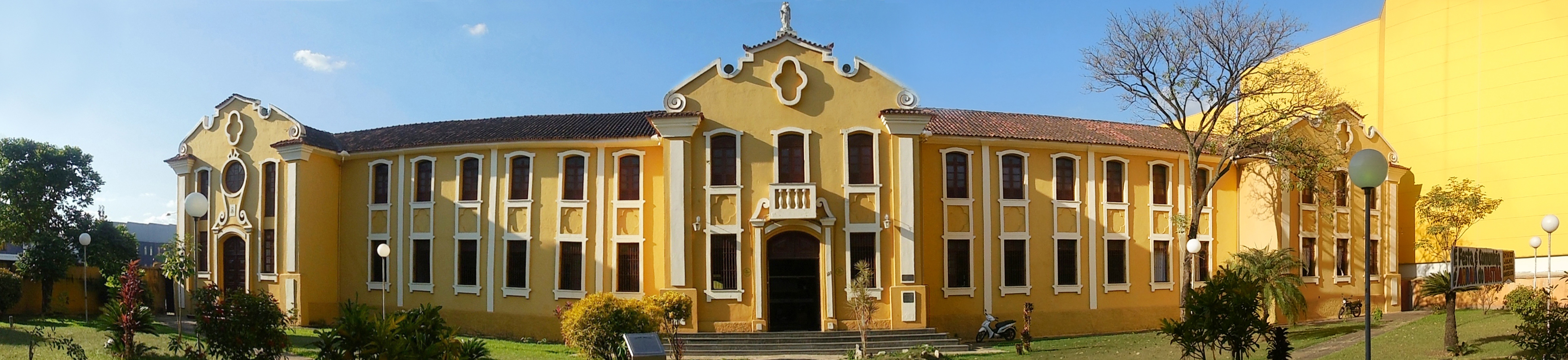 Panoramic view of the facade of the Colégio Angélica (Angélica college), in Coronel Fabriciano, Minas Gerais, Brazil.